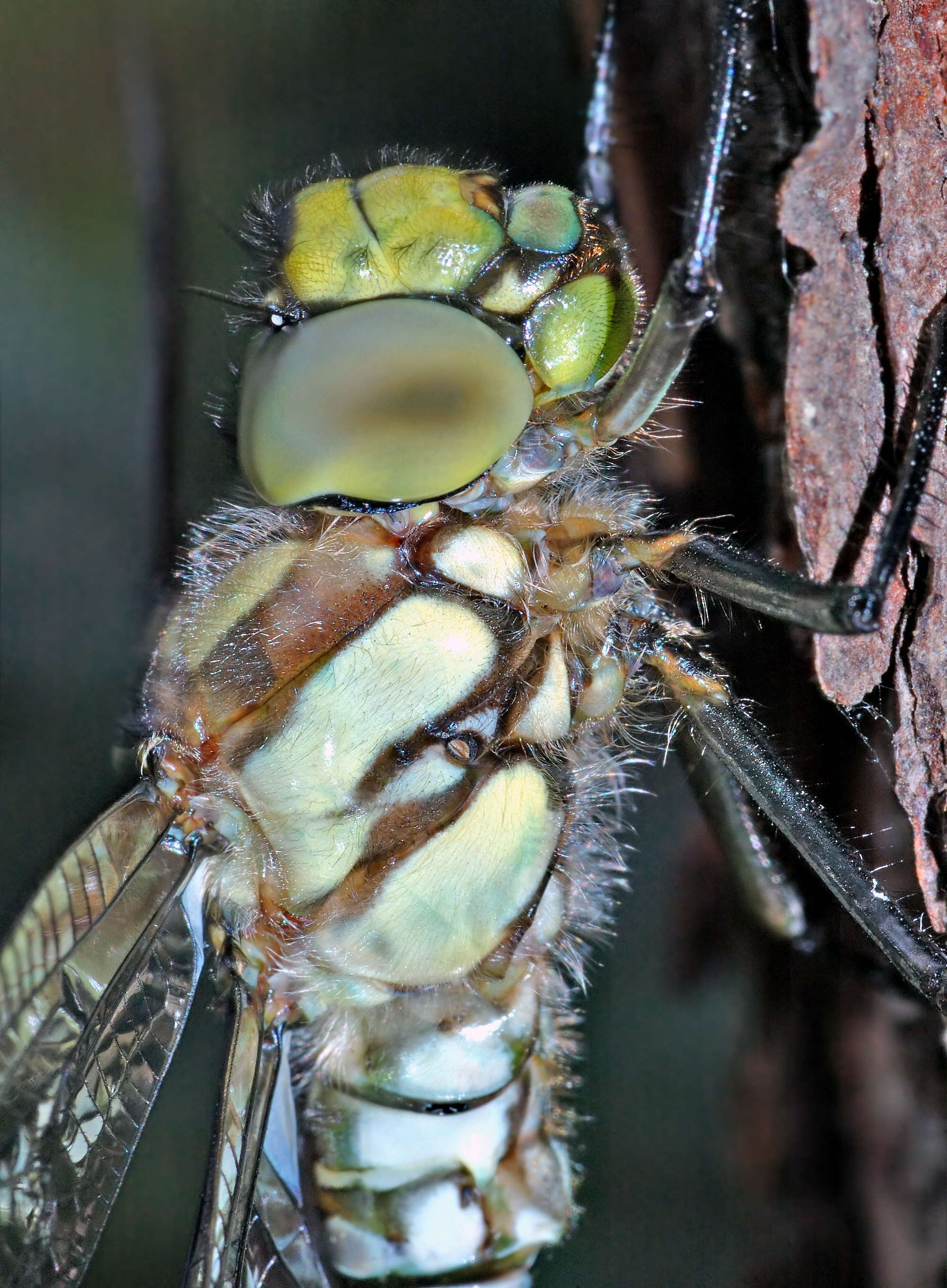 This image shows a body close-up from the side of a male dragonfly of the species Aeshna cyanea.